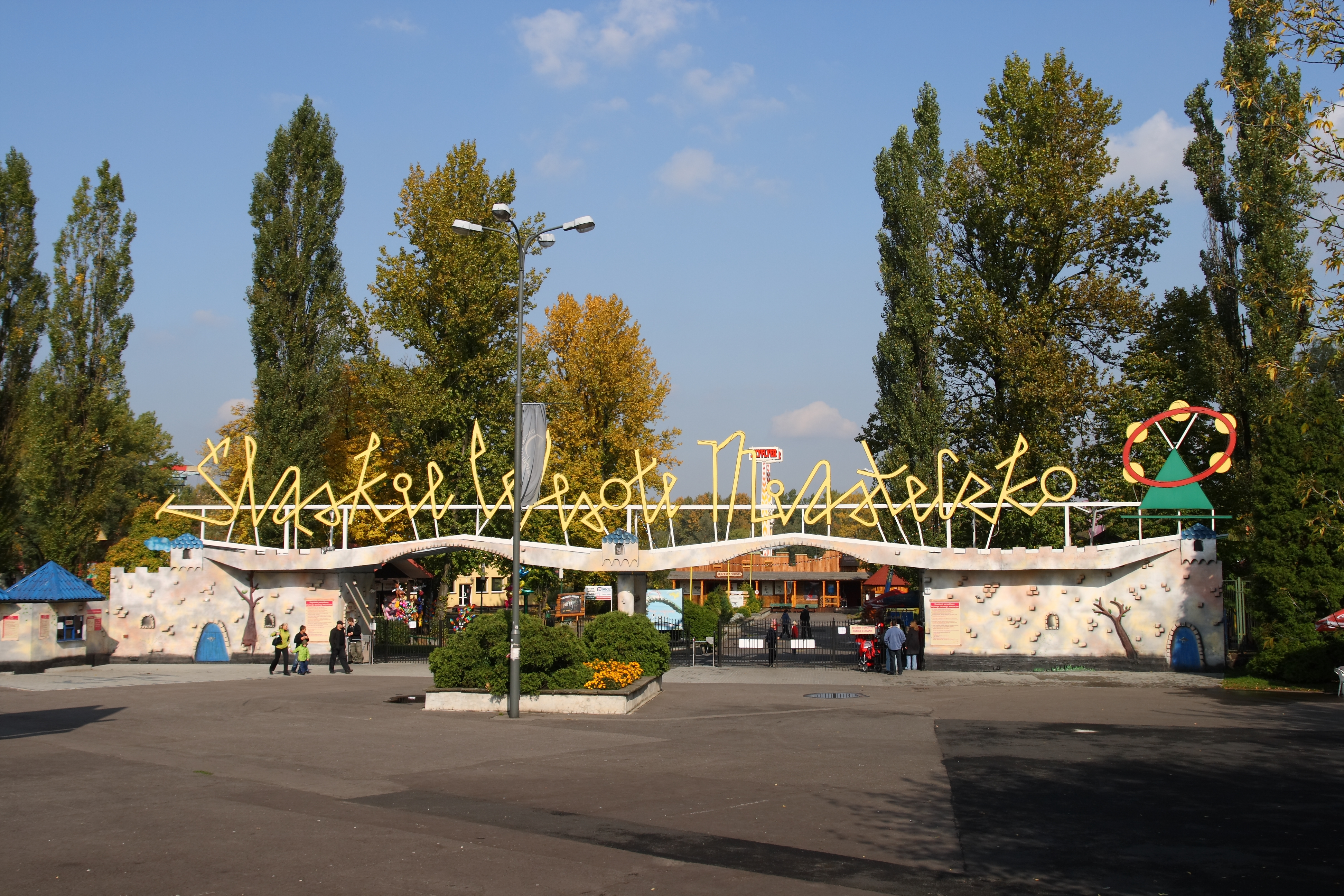 Silesian Amusement Park in Silesian Central Park (Poland).